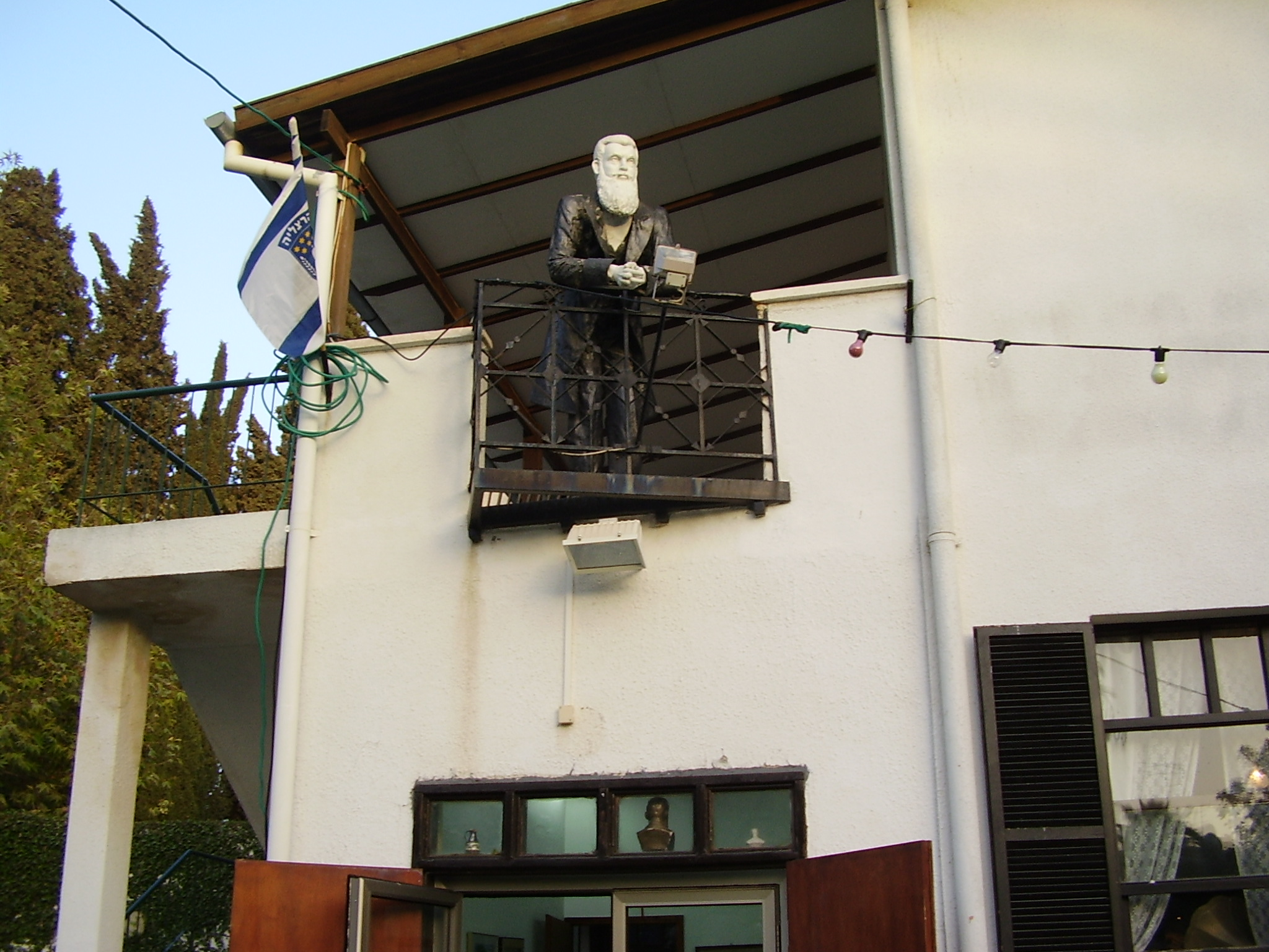 Herzl statue in Herzliya historical museum